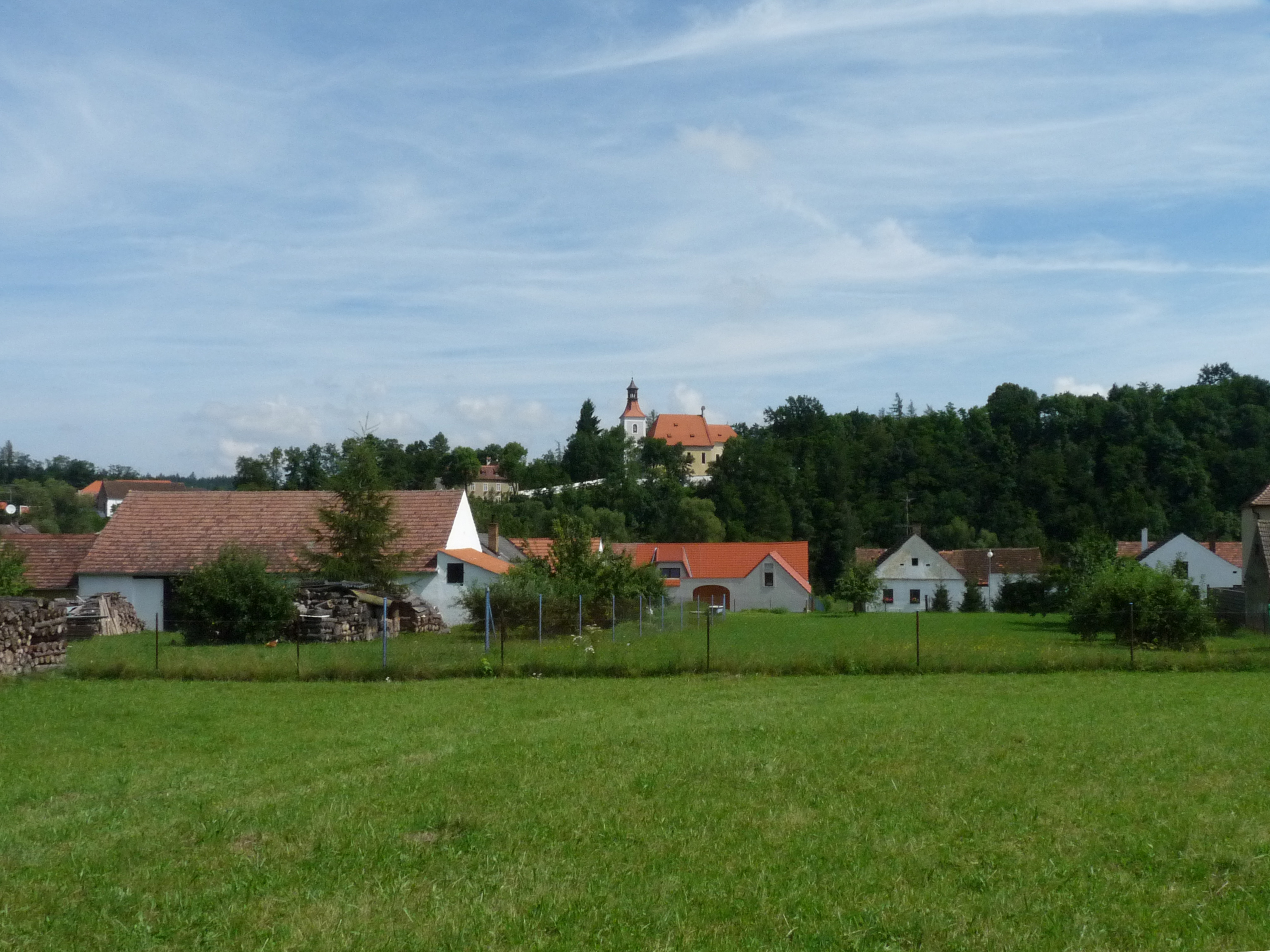 St Vincent Church in Doudleby, České Budějovice district, Czech Republic as seen from Straňany